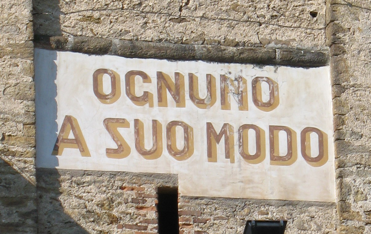 Coazze